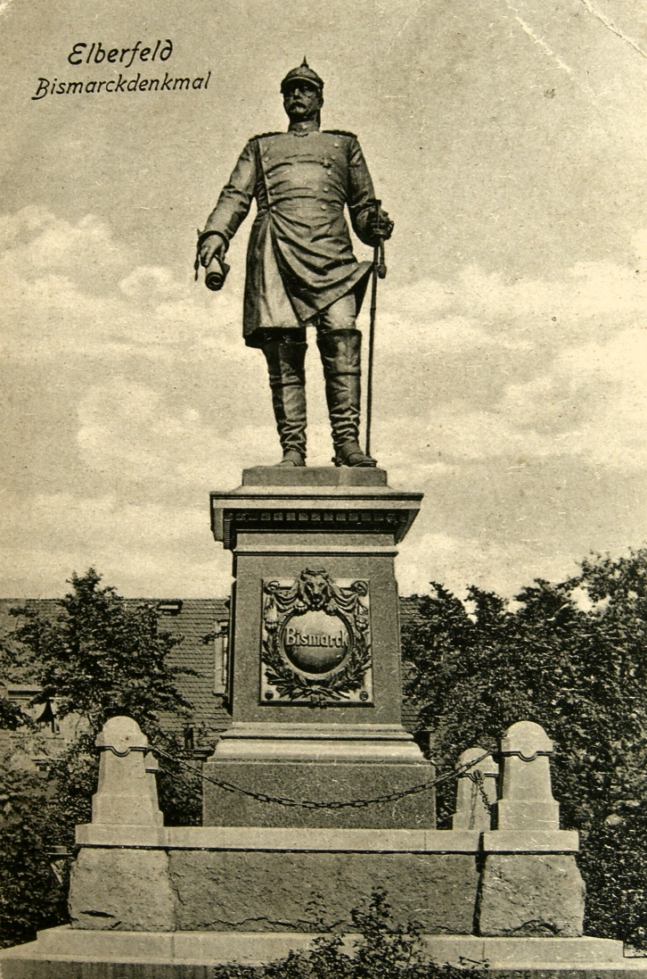 Otto von Bismarck-Memorial in Elberfeld sculpted ba Ludwig Brunow 1898 (destroyed)